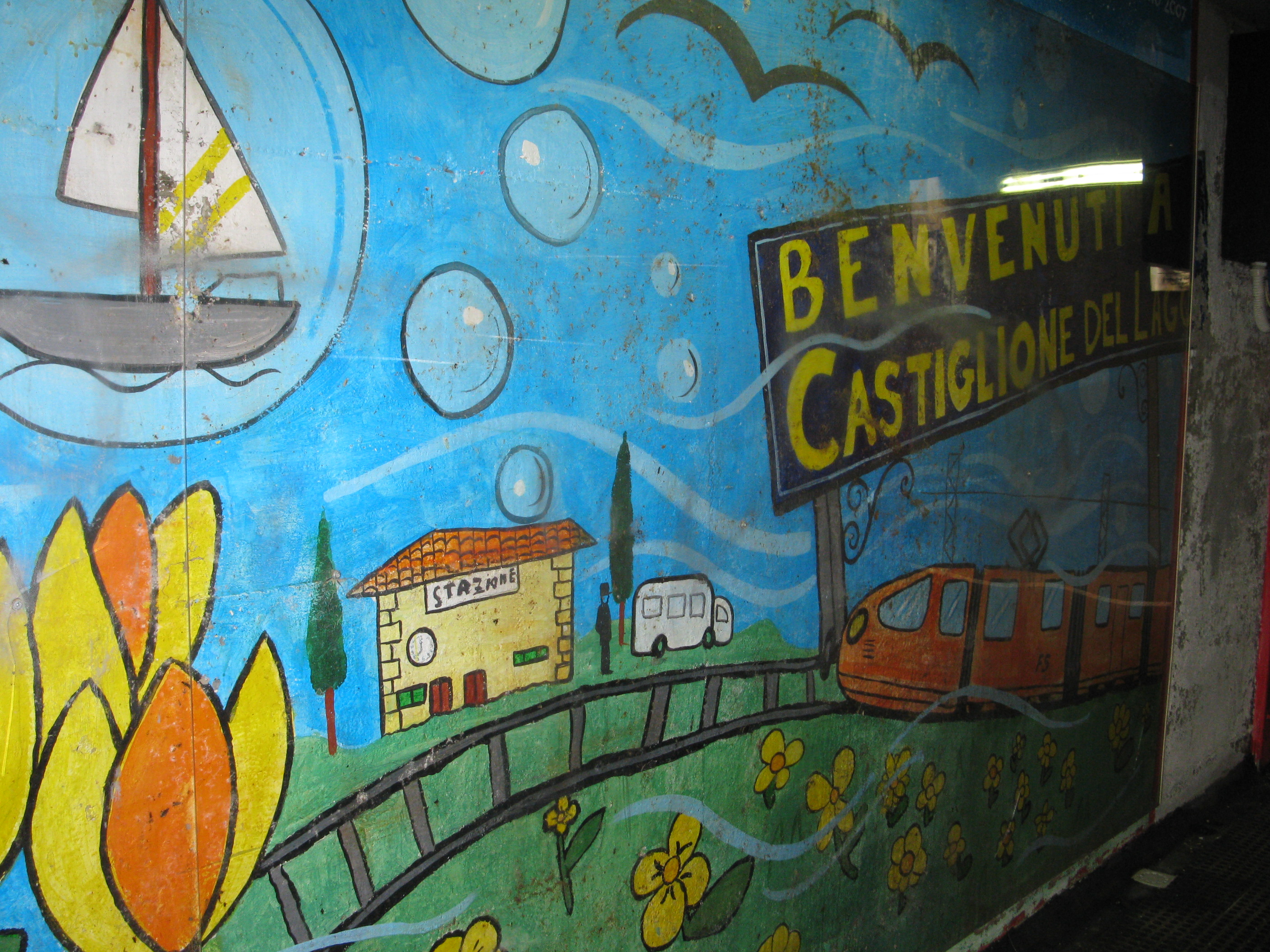 Decoration made by Castiglion del Lago elementary school in the subway of the railway station.